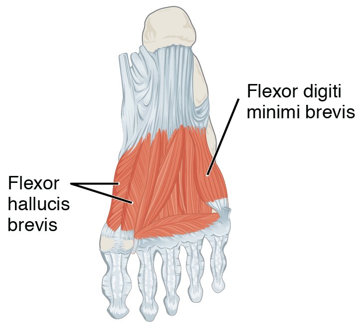 Caption: The muscles along the dorsal side of the foot (a) generally extend the toes while the muscles of the plantar side of the foot (b, c, d) generally flex the toes. The plantar muscles exist in three layers, providing the foot the strength to counterbalance the weight of the body. In this diagram, these three layers are shown from a plantar view beginning with the bottom-most layer just under the plantar skin of the foot (b) and ending with the top-most layer (d) located just inferior to the foot and toe bones. URL: Other versions